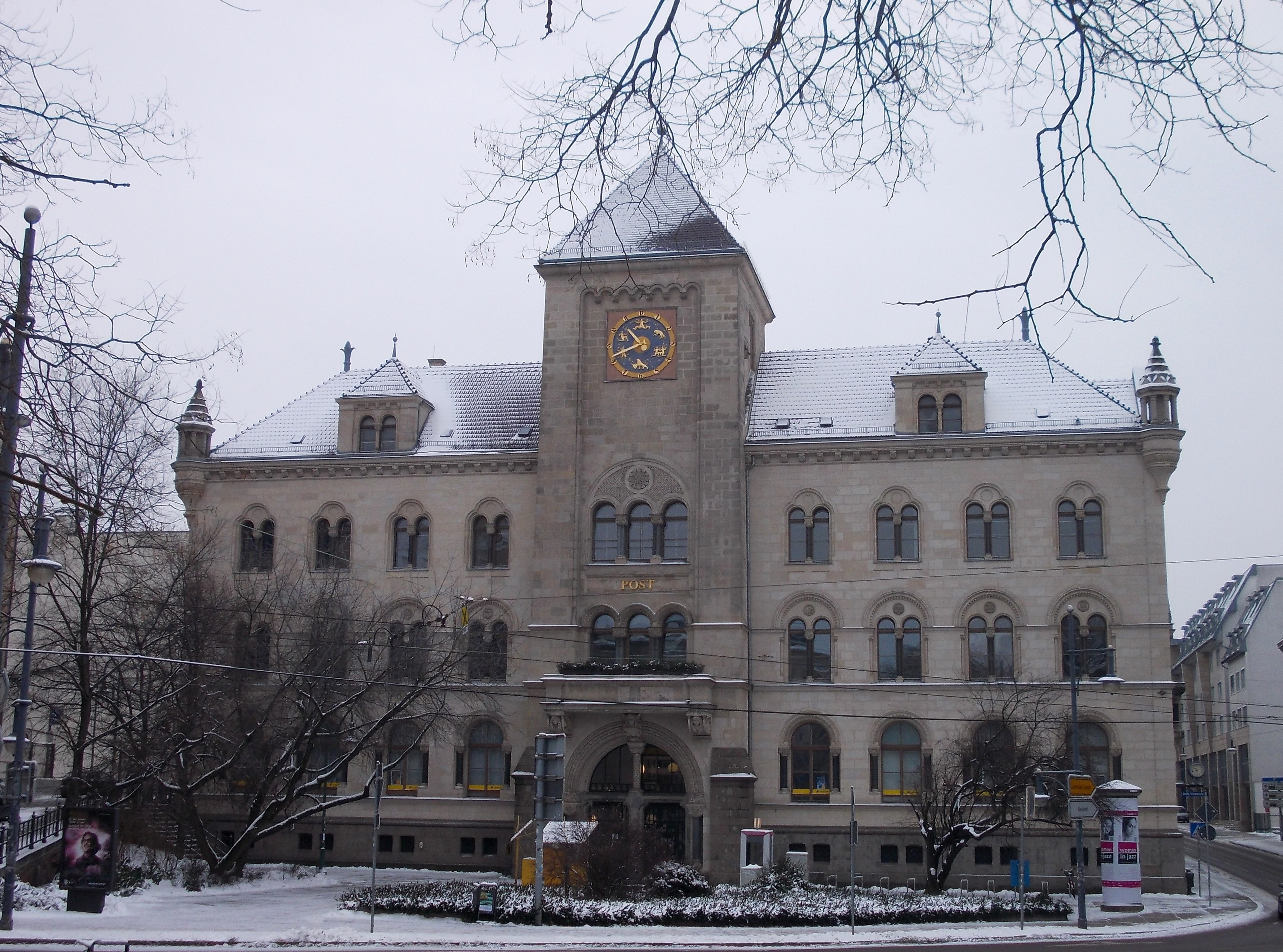 Former main post office in Halle/Saale (Saxony-Anhalt)